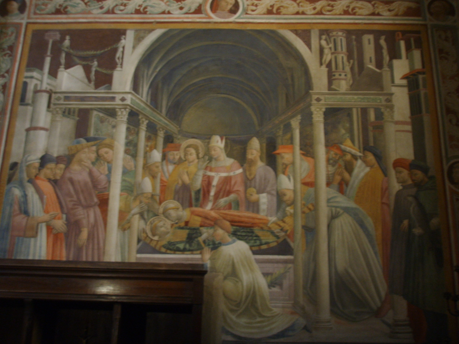 Duomo, Cappella by Paolo Uccello, first to right from the central one, frescos by Paolo Uccello, Prato, Italy